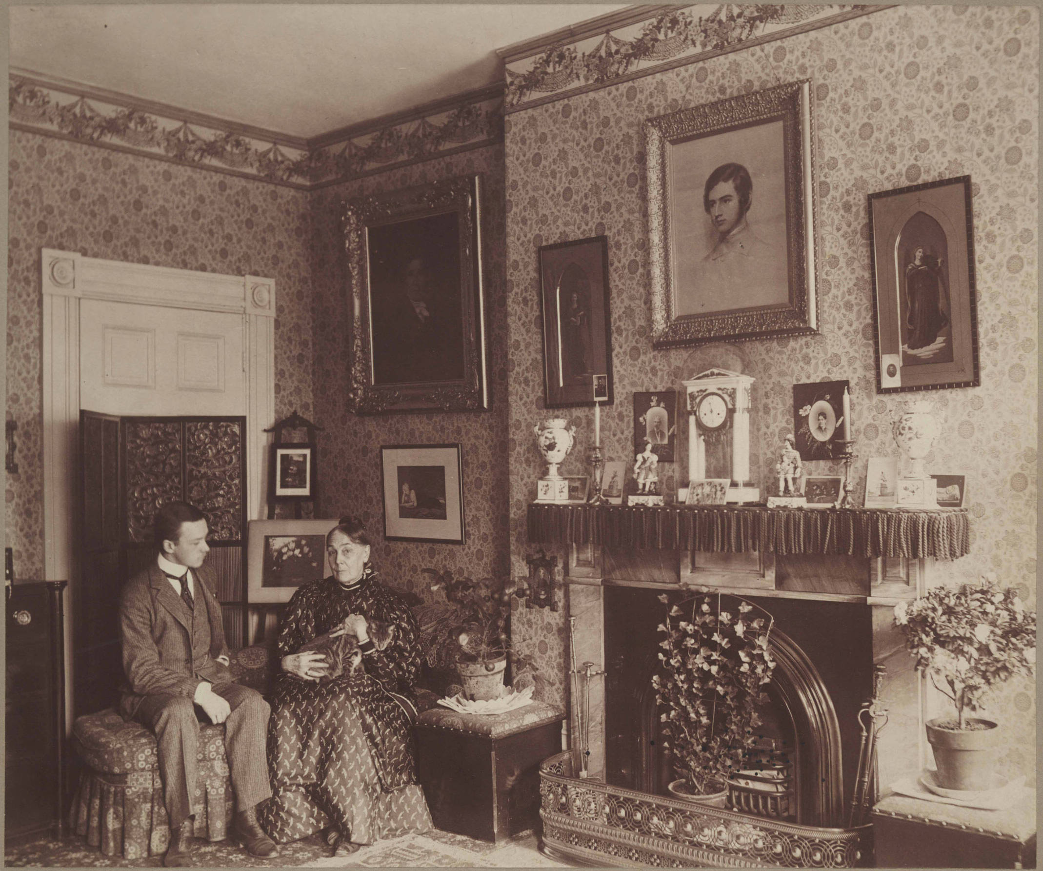 The interior of Miss Russell's residence at 72 Beacon Street shows her seated with Mr. Gibson and her cat in a richly decorated room. Title devised by curator. In black ink on verso: Charles Hammond Gibson / (Cousin Mary) Miss Mary A.P. Russell and the famous Topsy the Cat / at 72 Beacon Street, Boston. / Drawing Room - Sitting Room 1st Flight up Front. / Sold after her death Apr. 1918 to Mr. F.H. Beale. In graphite: This photo appears to have been taken about 1890. In blue ink: Murna Dunkle, 1952. Retrospective conversion record.